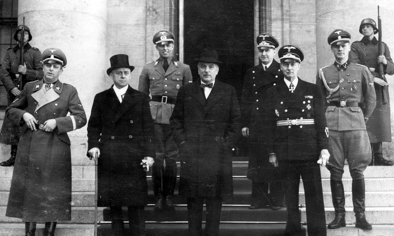 In the Courtyard of Honor of the "new" Reich Chancellery in Berlin (from left), SS-Obergruppenführer Werner Lorenz, the Hungarian ambassador to Germany Döme Sztójay, and the President of the Hungarian Parliament Andreas Tasnady-Nagy.